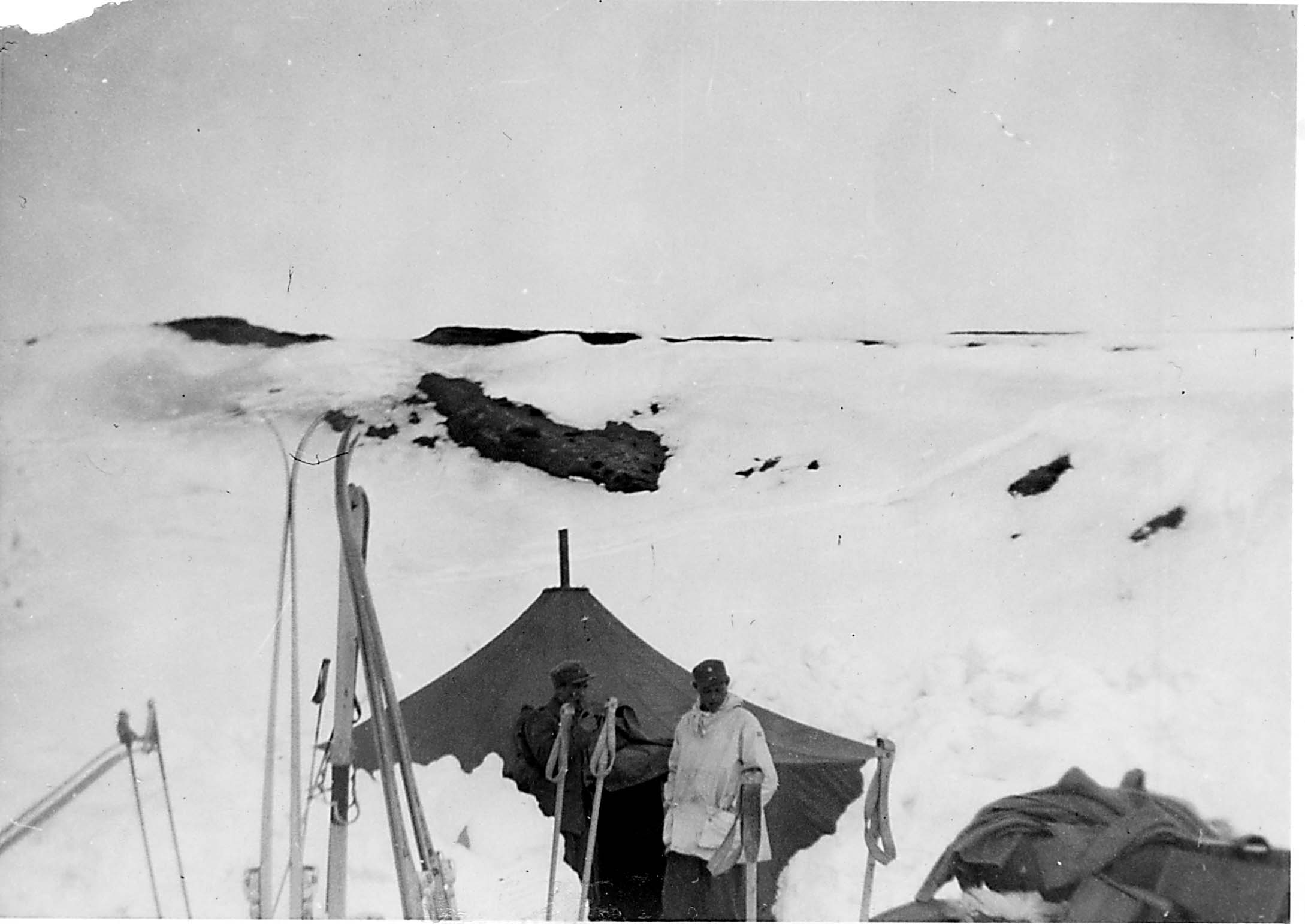 Photo from National Archives of Norway's Flickr-Album "Sykepleier Marie Lysnes' album" ("Album of nurse Marie Lysnes", all images marked with "No known copyright restrictions")